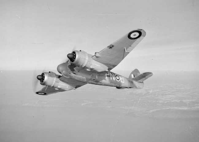 Aircraft of the Royal Air Force 1939-1945- Bristol Beaufighter. Beaufighter Mark IF, R2198 'PN-B', of No. 252 Squadron RAF based at Chivenor, Devon, in flight off the coast.